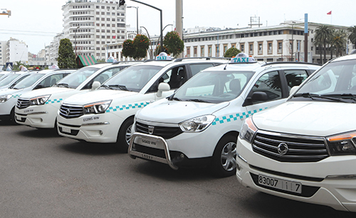 New taxi cabs ready to use in Morocco